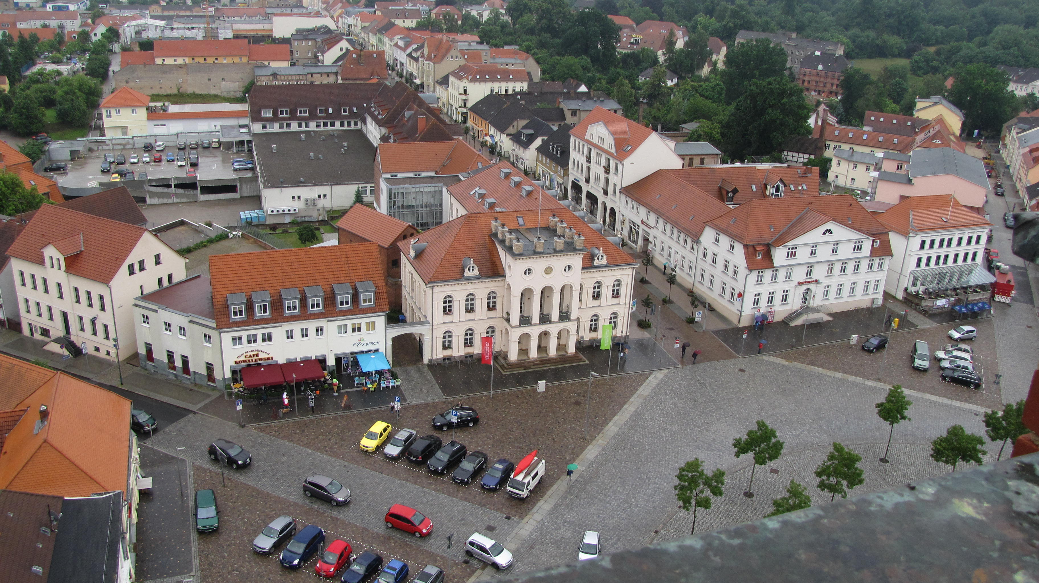 View from the tower of the Stadtkirche Neustrelitz of Marktplatz and Rathaus